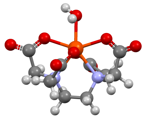 Structure of Fe(EDTA)(H2O) anion (Na+ and one water of solvation omitted)